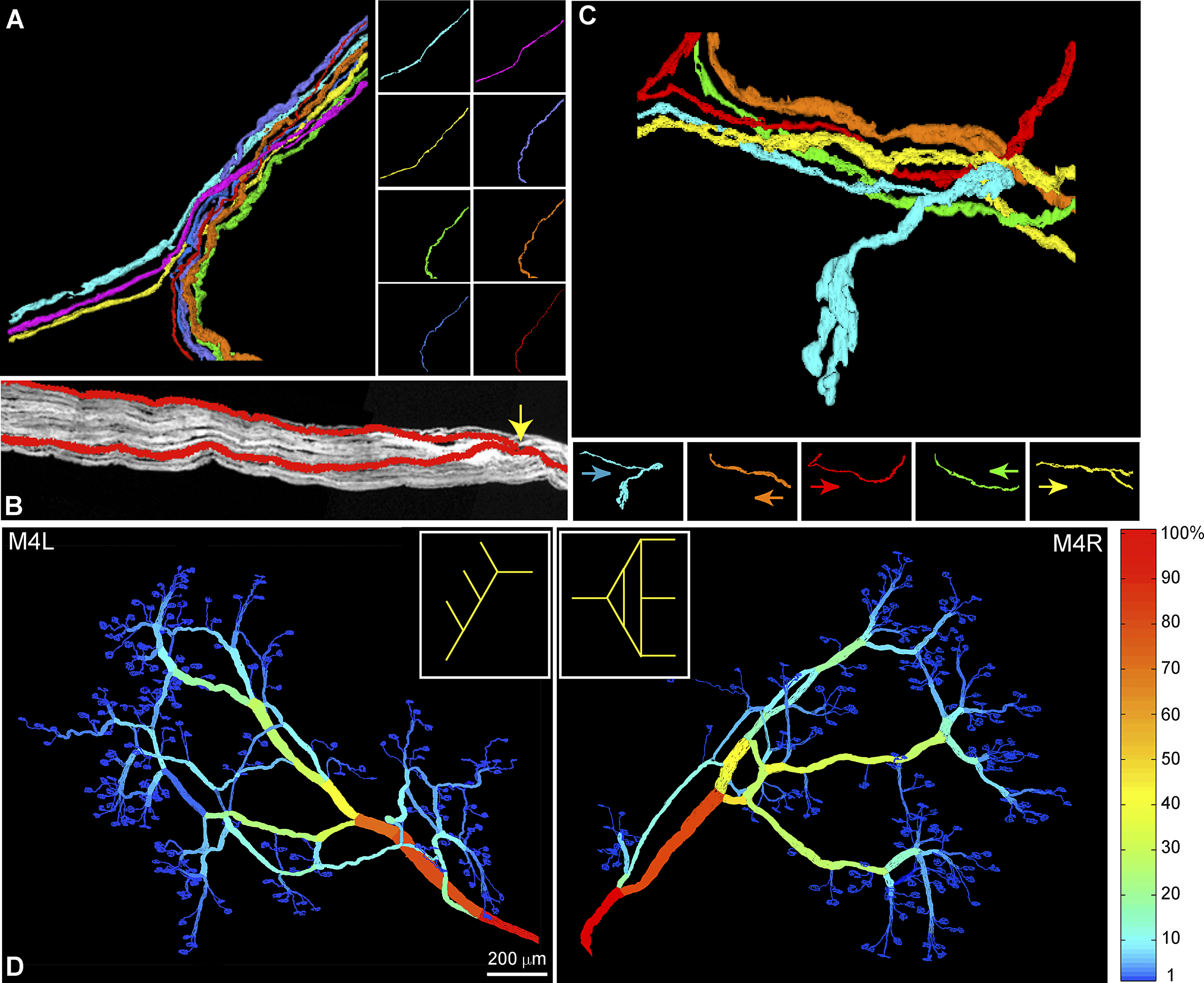 (A) A nerve fascicle branched while its constituent axons did not branch. (B) An axon branched within a nerve fascicle. The two resultant branches continued in parallel in the same nerve. (C) Five axonal branches traveled in opposite directions in the same nerve fascicle. Arrows indicate the proximal-distal direction of each branch. (D) Nerve fasciculation patterns were not symmetrical in the left-right pair of muscles. Each nerve fascicle was color-coded according to its innervation weight, which was defined as the percentage of a muscle's NMJs innervated by axonal branches traveling through the fascicle. Insets: a skeleton of these two connectomes (M4L and M4R) were obtained by removing all fascicles with weights less than 10%. The topologies of the two skeletons were different. For example, there were no loops in M4L but two loops in M4R.